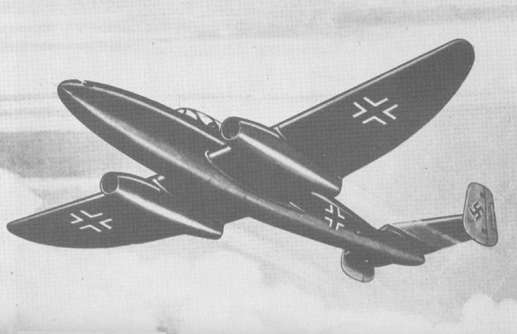 Illustration of the Heinkel He 280, the first jet-powered fighter to fly.